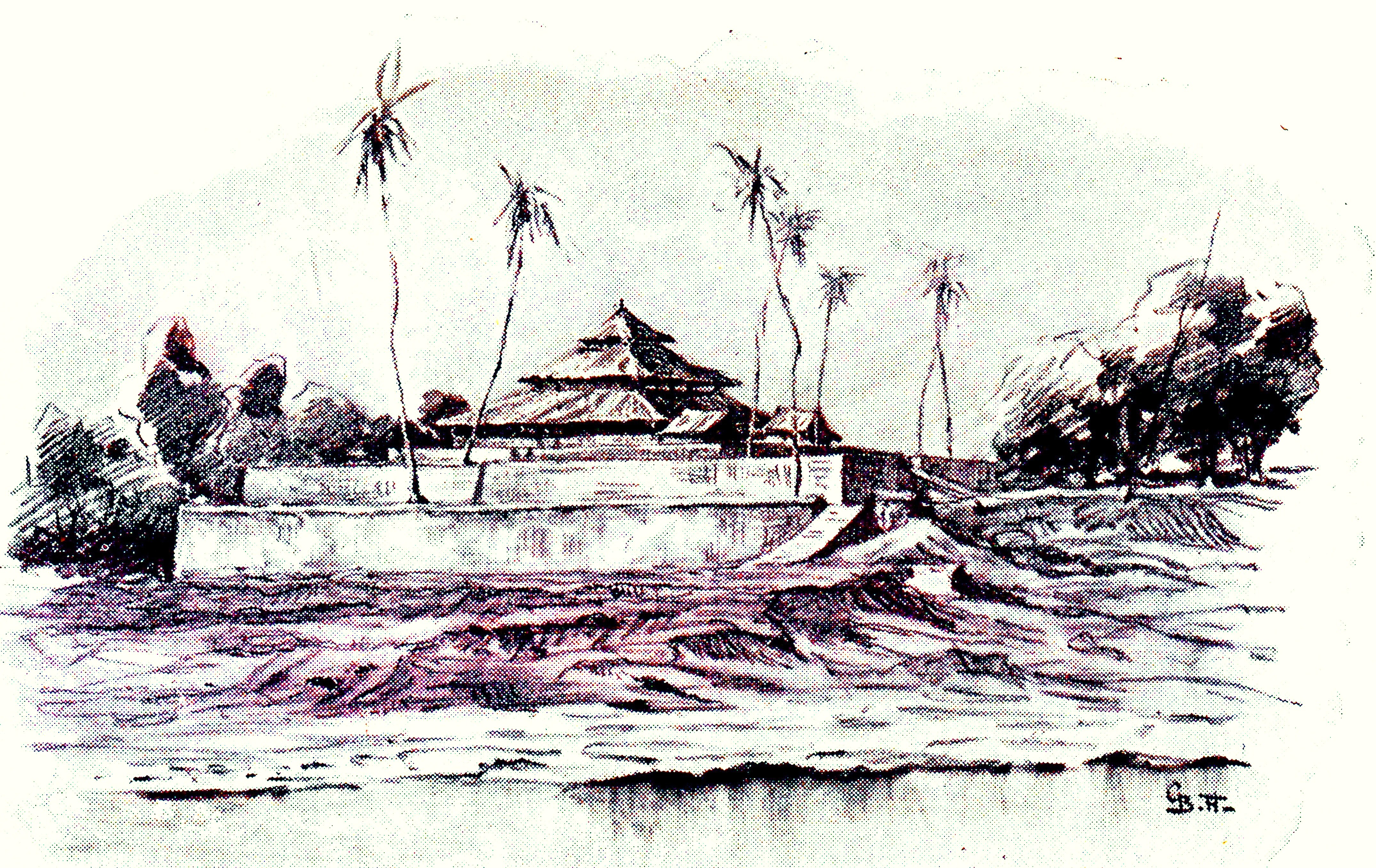 De Mesigit van Indrapoeri